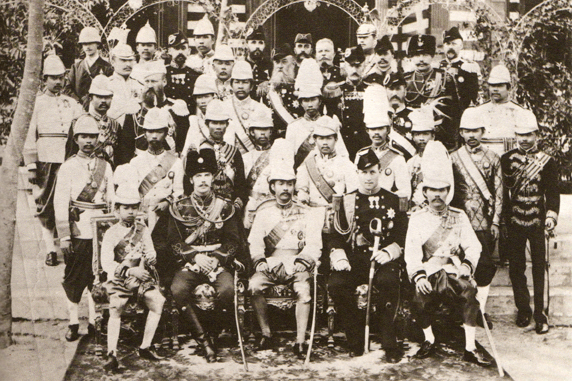 Tsarevich Nicholas (Later Tsar Nicholas II) on a state visit to Siam in March 1891